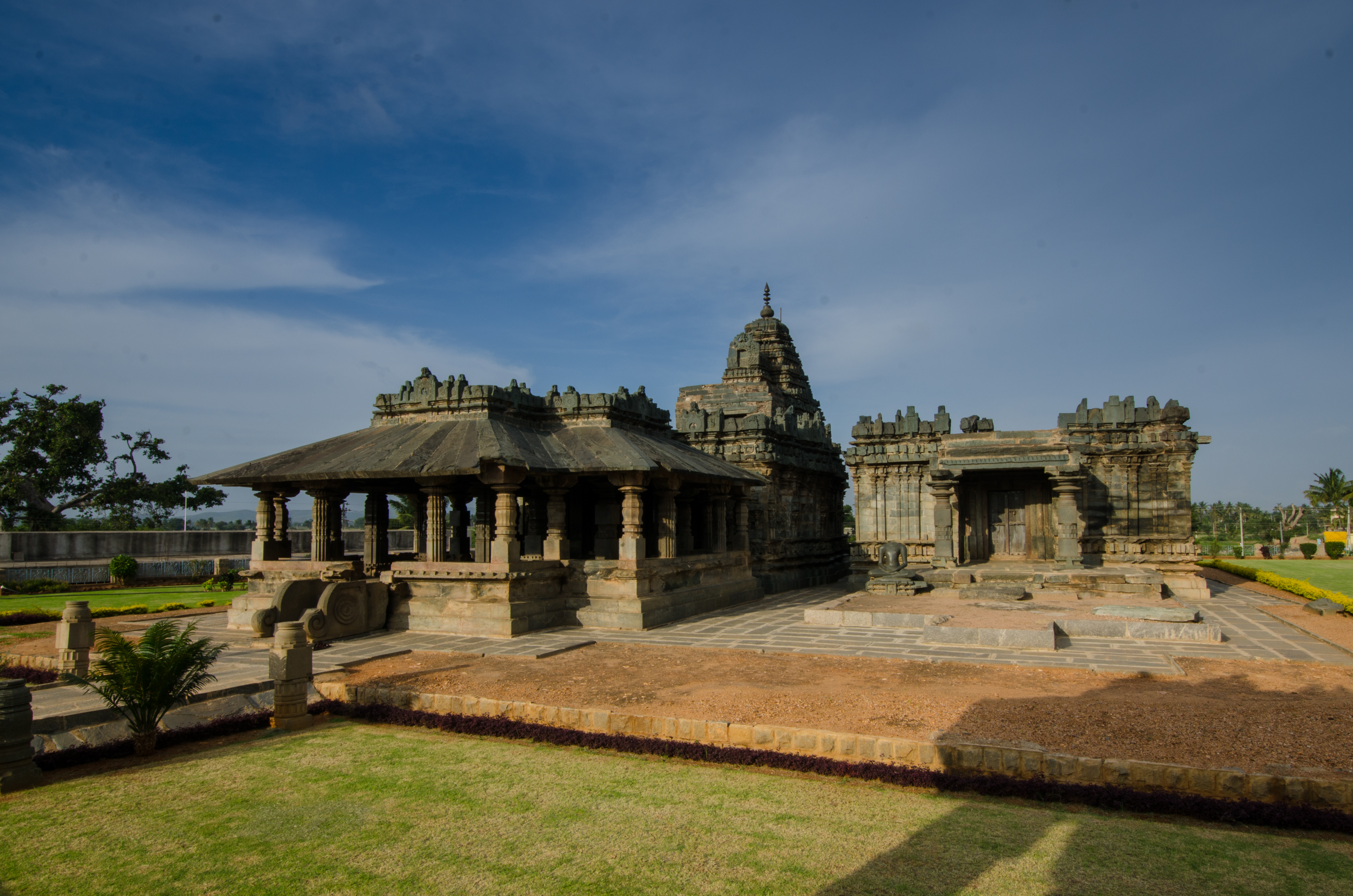 Brahma Jinalaya in Lakkundi, Koppal